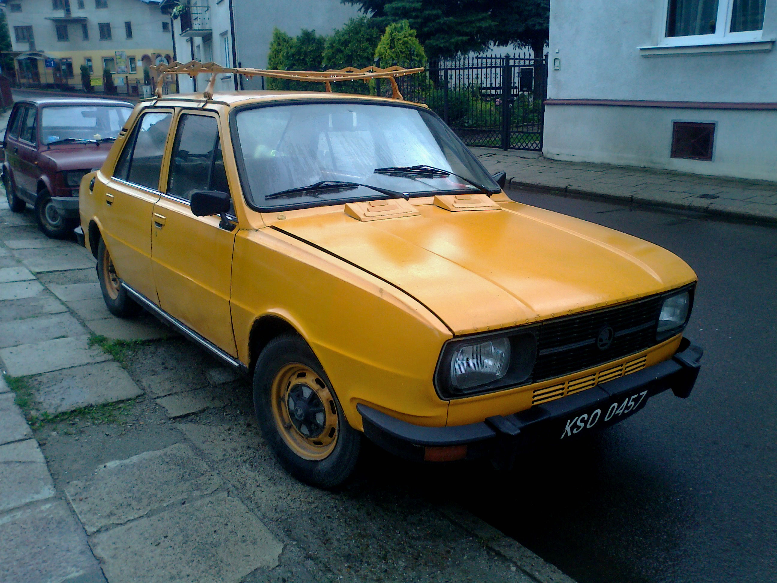 An orange Škoda 742 (probably 120) seen in Jasło, Poland.